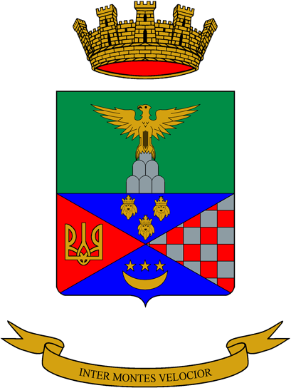 Coat of Arms of the 4° Army Corps Autogroup "Claudia"; Italian Army.